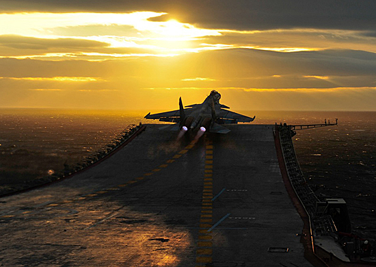 The 279th separate naval fighter regiment (Murmansk Region)